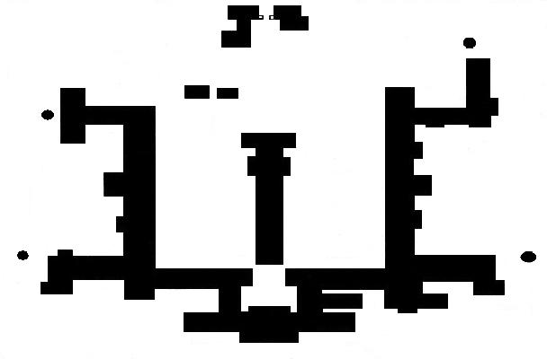 Black and white representation of the buildings at Kew Asylum aka willsmere, Victoria, Australia.